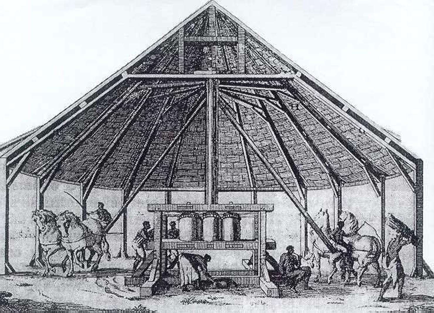 Old trapiche "animal powered" from de colonial days